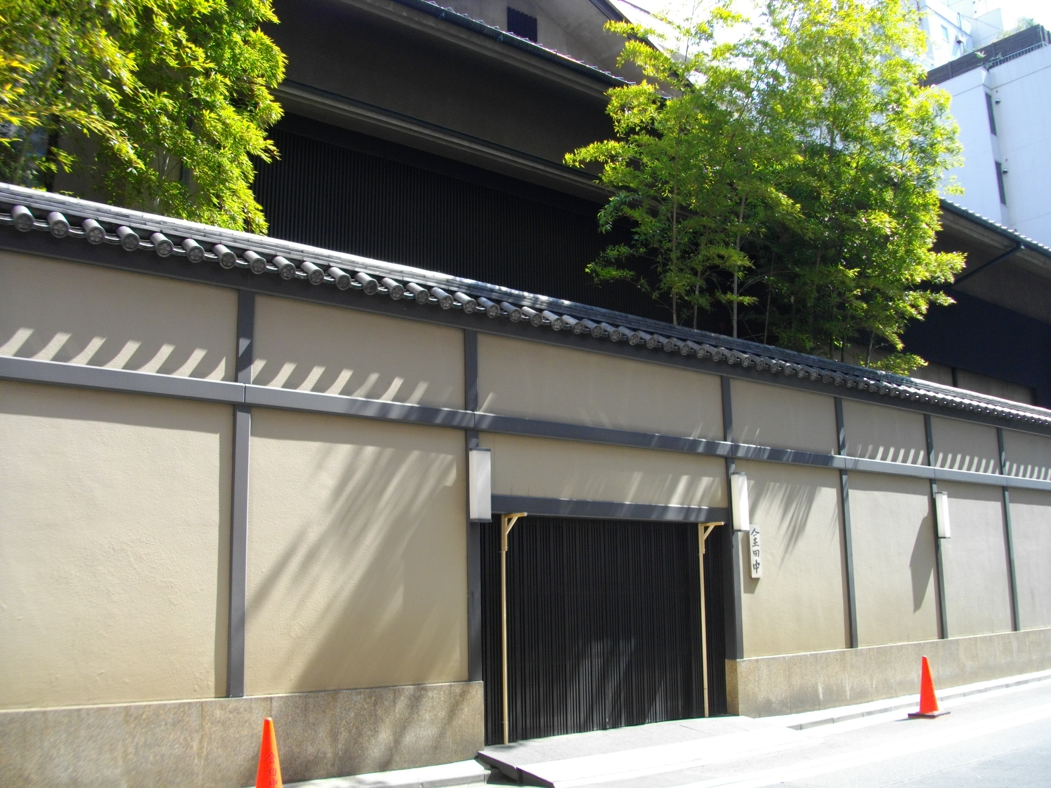 Kanetanaka Head Shop